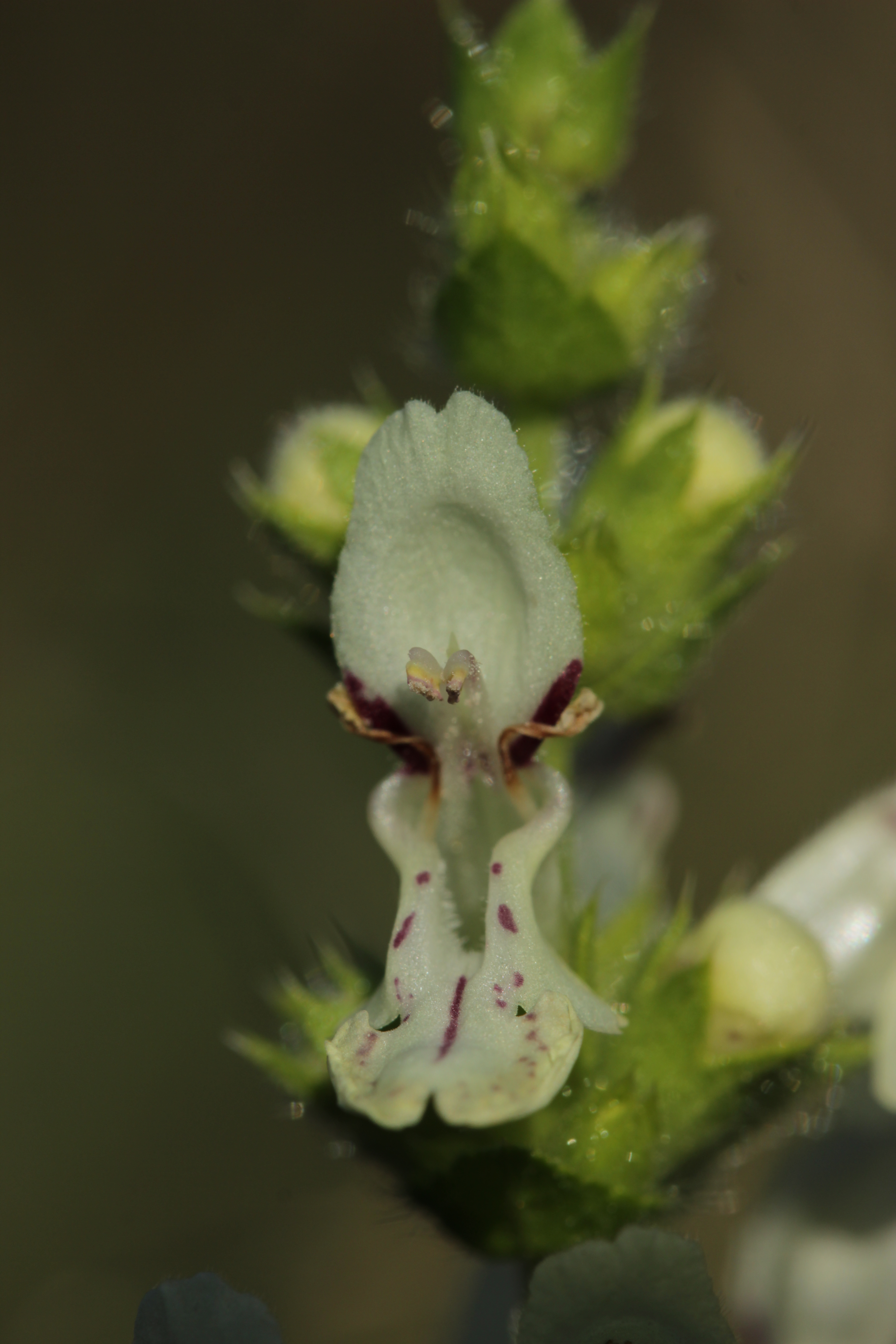 Stiff Hedgenettle - Stachys recta